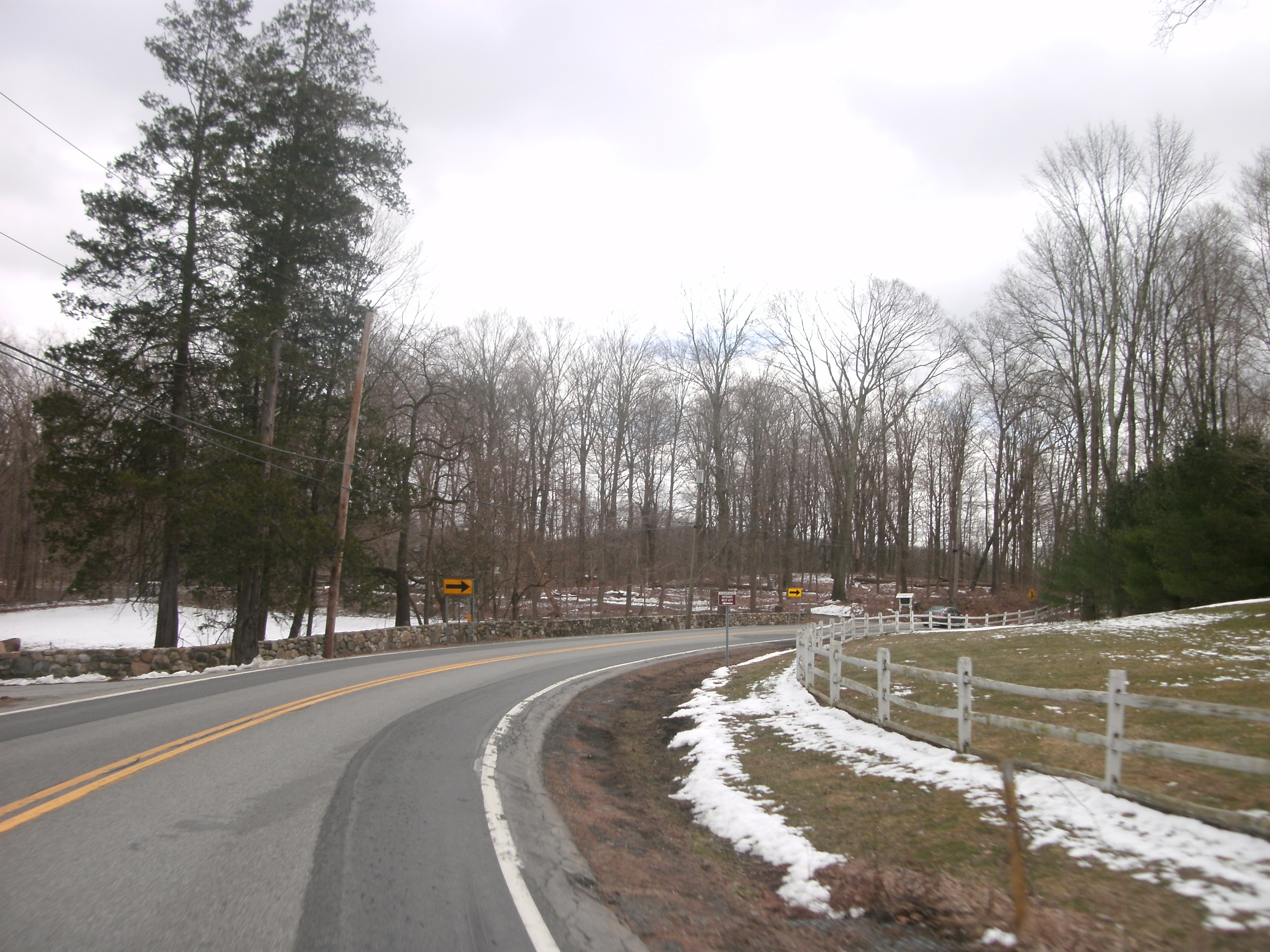 NY 134 eastbound approaching a curve and the entrance to the Kitchawan Preserve.